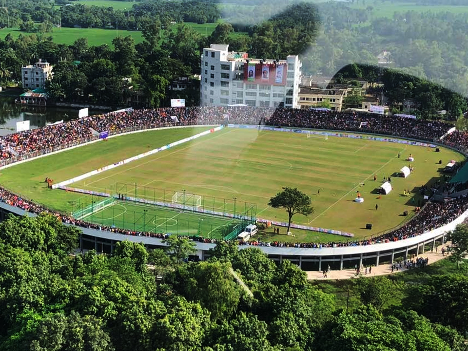 An aerial view of Sheikh Kamal Stadium, situated at Nilphamari.